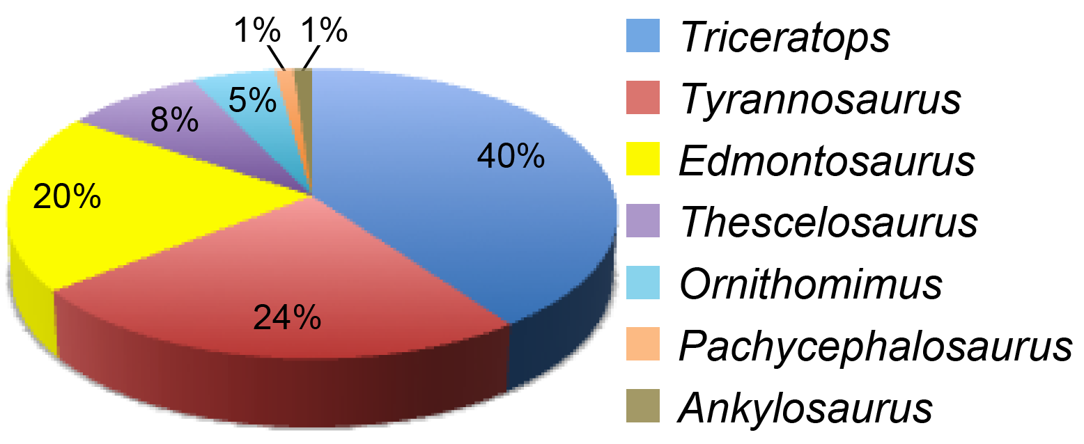 Pie chart of the time averaged census for large-bodied dinosaurs from the entire Hell Creek Formation in the study area (sampled near Fort Peck Reservoir in northeastern Montana). Triceratops is the most common dinosaur at 40% (n = 72); Tyrannosaurus is second at 24% (n = 44); Edmontosaurus is third at 20% (n = 36) followed by Thescelosaurus at 8% (n = 15), Ornithomimus at 5% (n = 9), and Pachycephalosaurus and Ankylosaurus at 1% (n = 2).